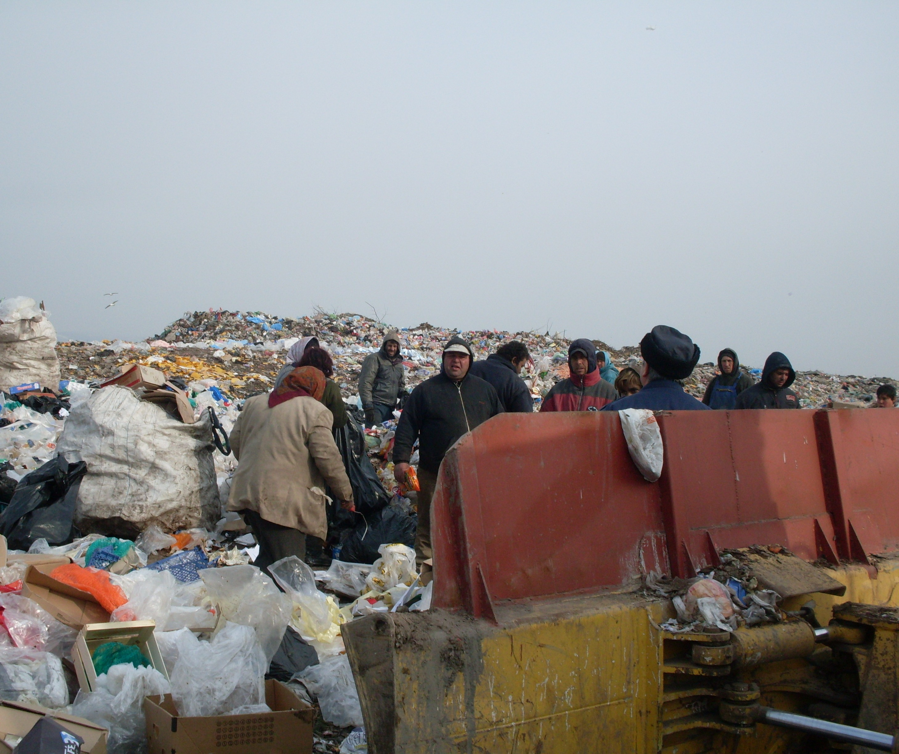 Цигани и скариди на ямболското сметище